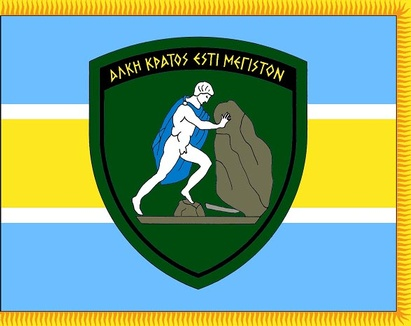 Image of the Hellenic Army ASDIS command